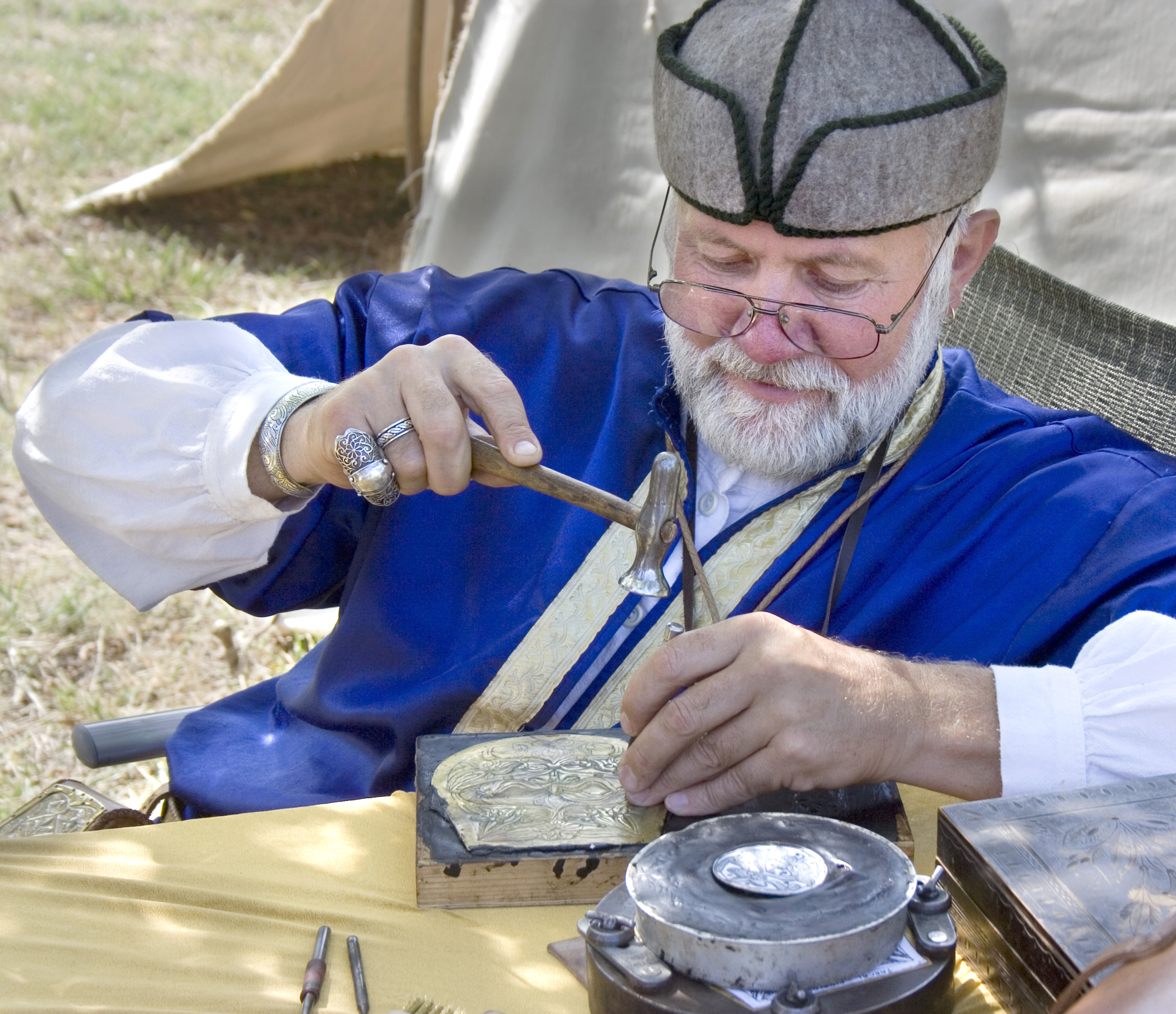 Ancient Hungarian - traditional coppersmith master at work - near to Mako, Hungary